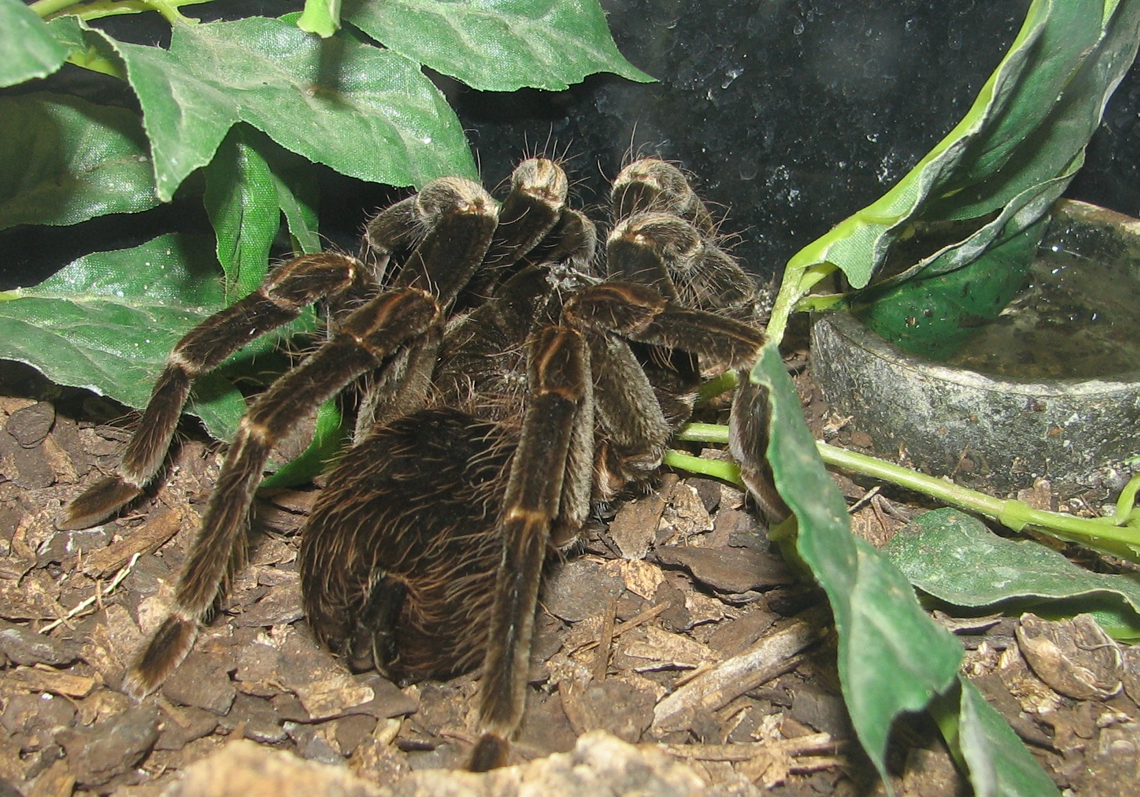 Blue Bloom Bird Eater - Pamphobeteus nigricolor - Louisville Zoo.. I have replaced an older image of mine of this species with this newer clearer image.